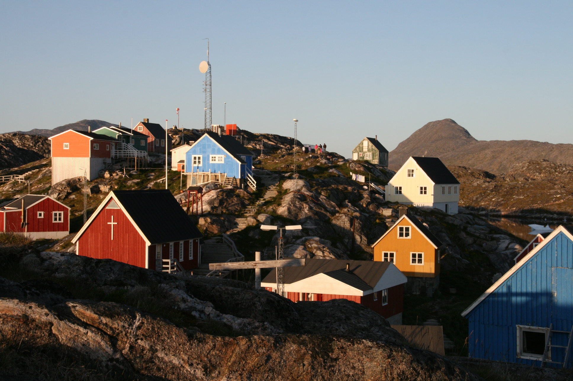 Saarloq viewed from inside the settlement